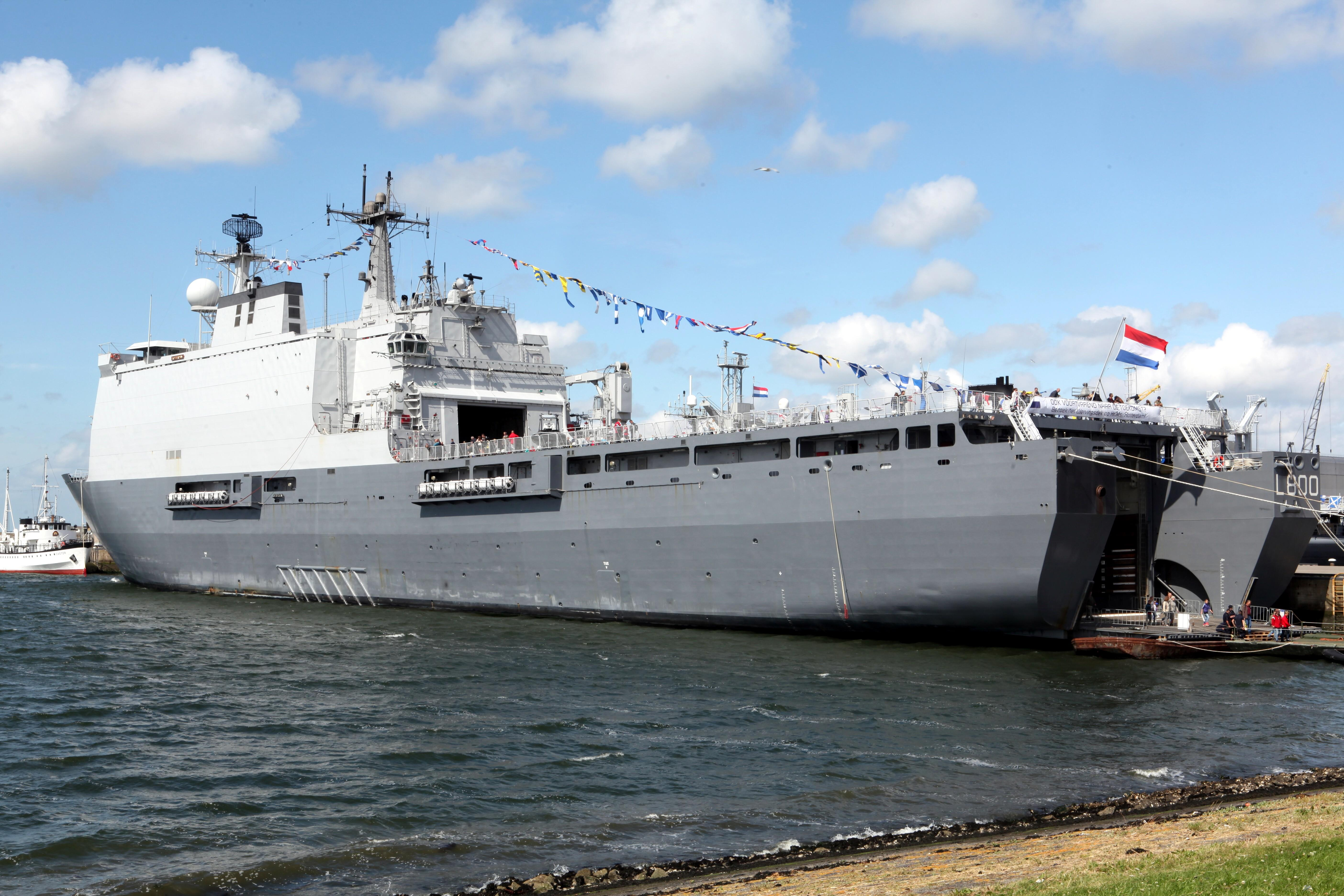 HNLMS Rotterdam L 800 Rotterdam class amphibious transport dock (LPD)